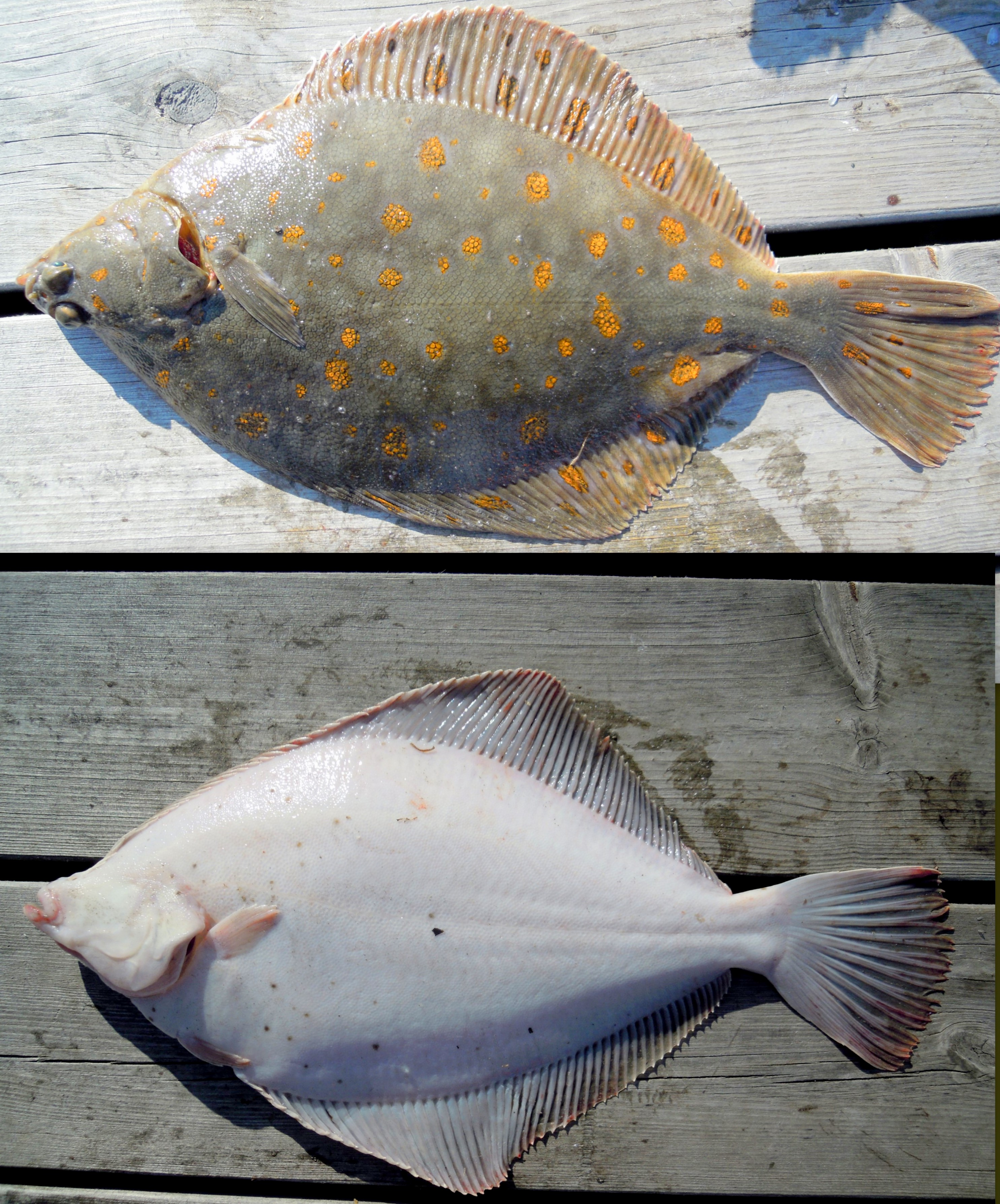 The European plaice, Pleuronectes platessa - in Norway